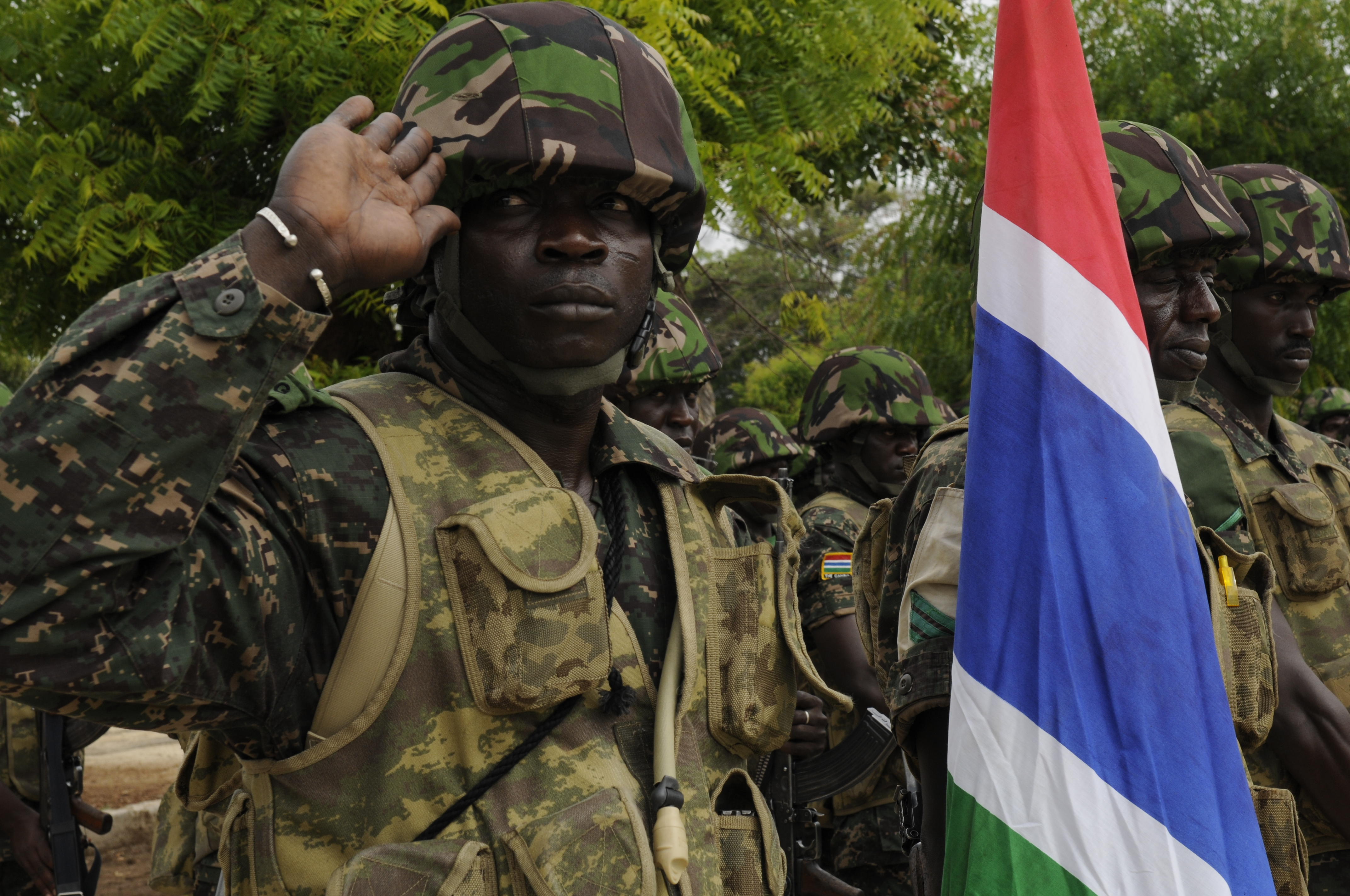 A Gambian soldier salutes during Senegal’s national anthem during the opening ceremonies for Western Accord 2012 in Thies, Senegal, June 9, 2012. Western Accord is a U.S. Africa Command-sponsored, Marine Forces Africa-led multilateral field exercise and humanitarian mission in Senegal designed to increase interoperability between the United States and several West African partner nations.